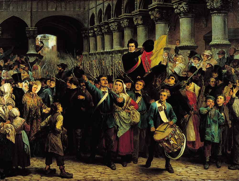 Charles Rogier and the volunteers from Liége depart for Brussels